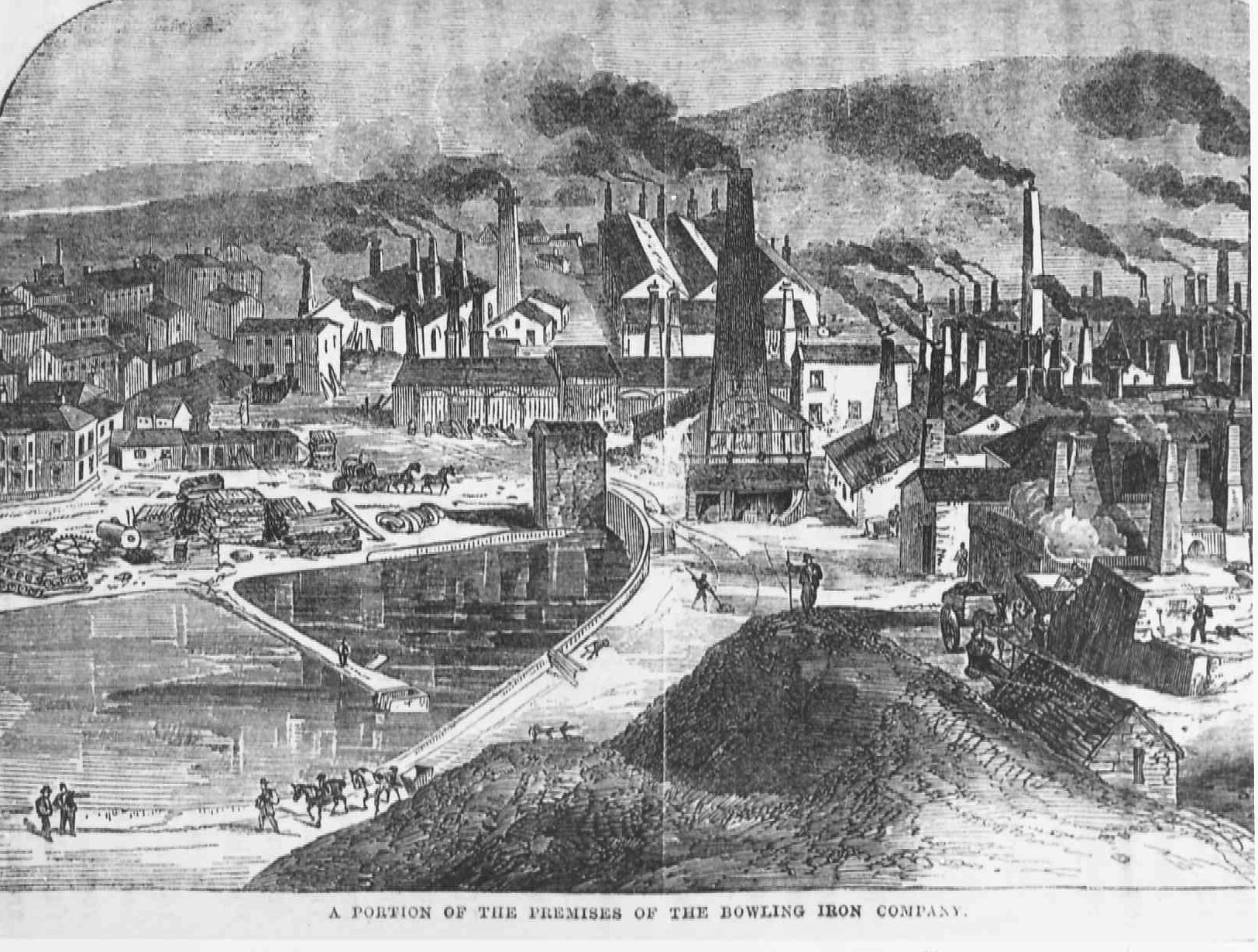 View of a portion of the Bowling Company iron works in Bradford, England